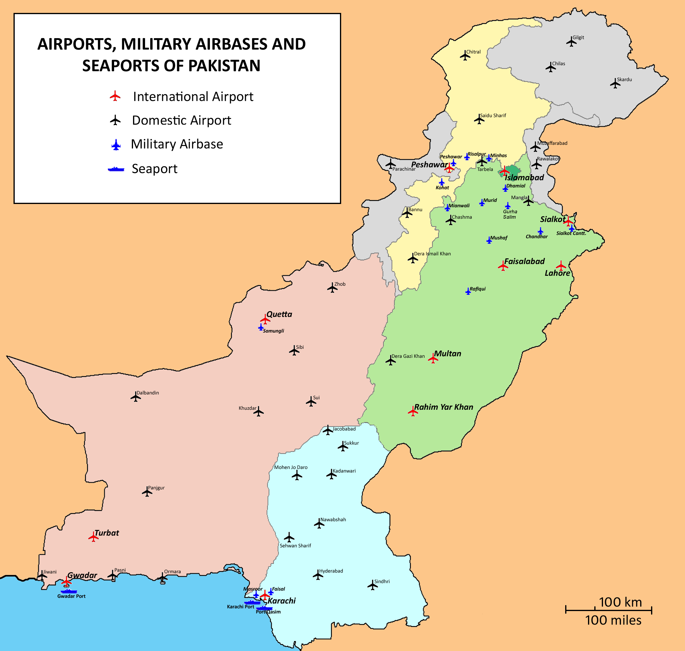 Airports, Military Airbases and Seaports of Pakistan.